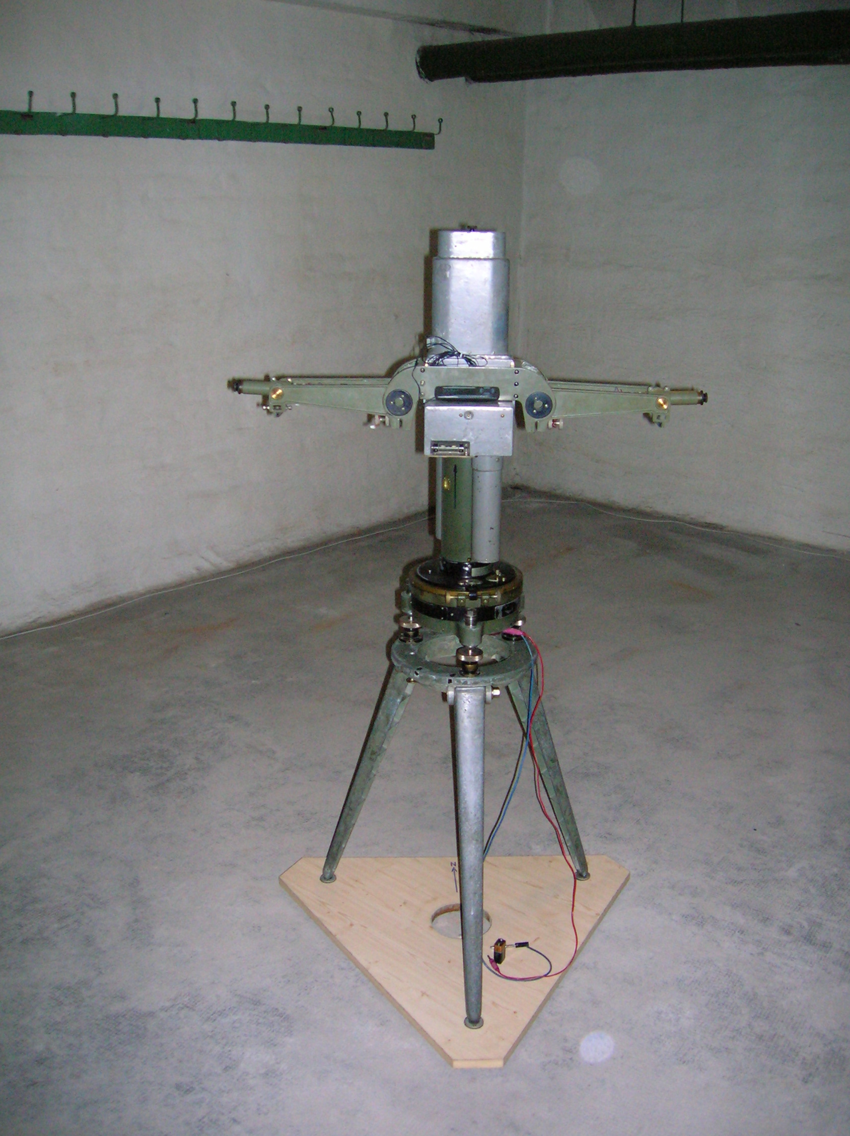 E54 torsion balance in BME